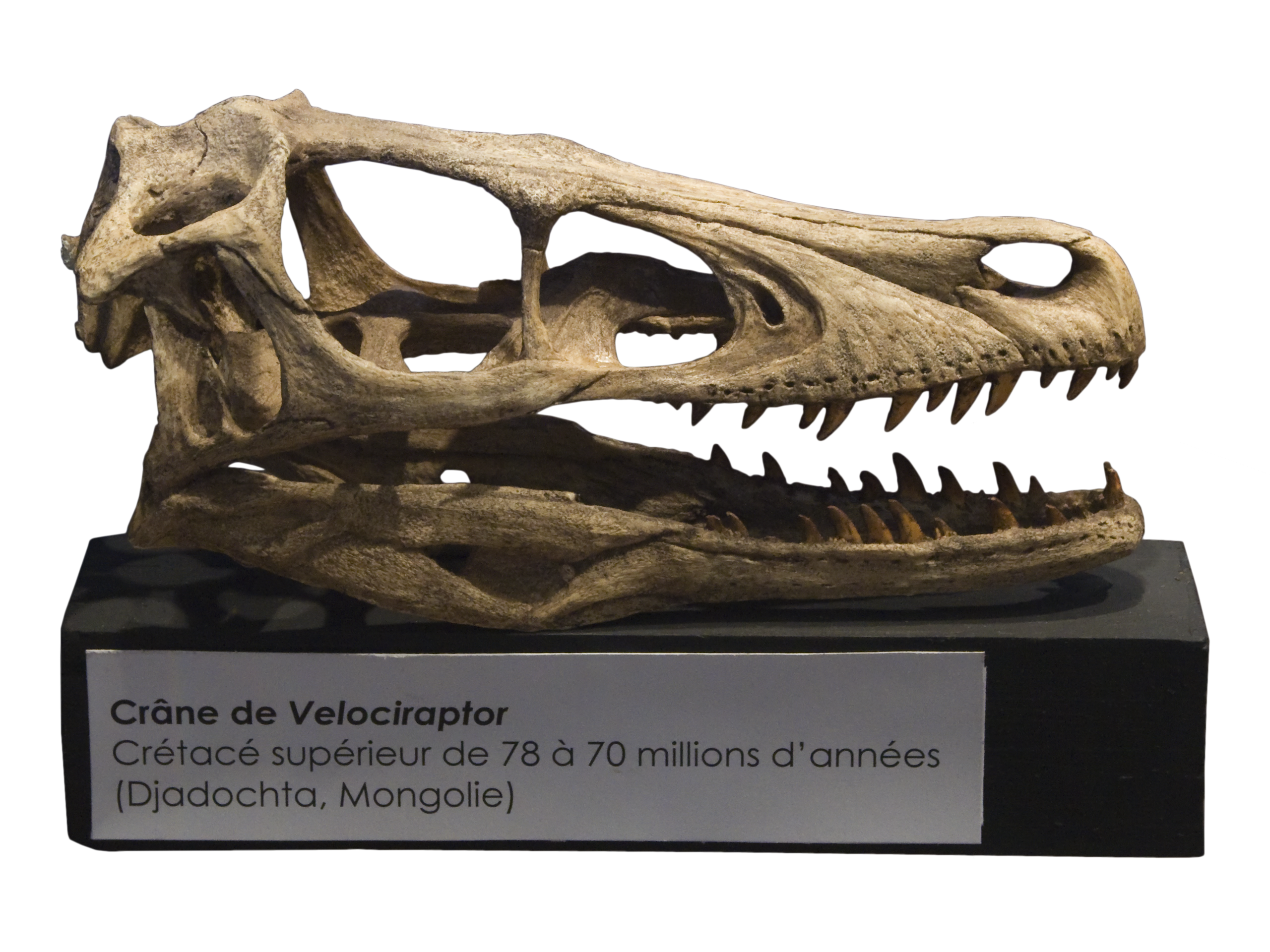 Velociraptor skull